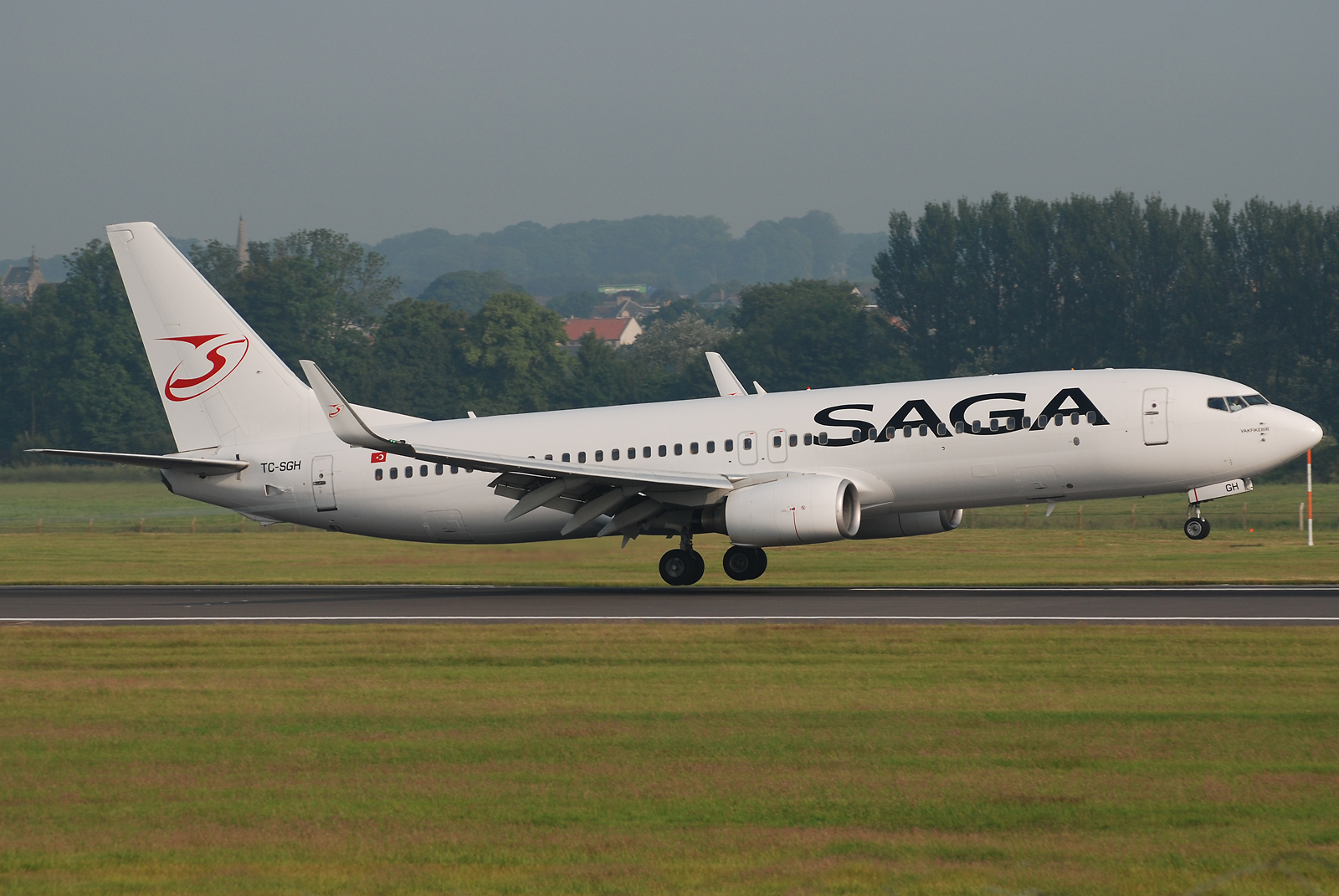 Saga Airlines Boeing 737-800 TC-SGH at Edinburgh Airport